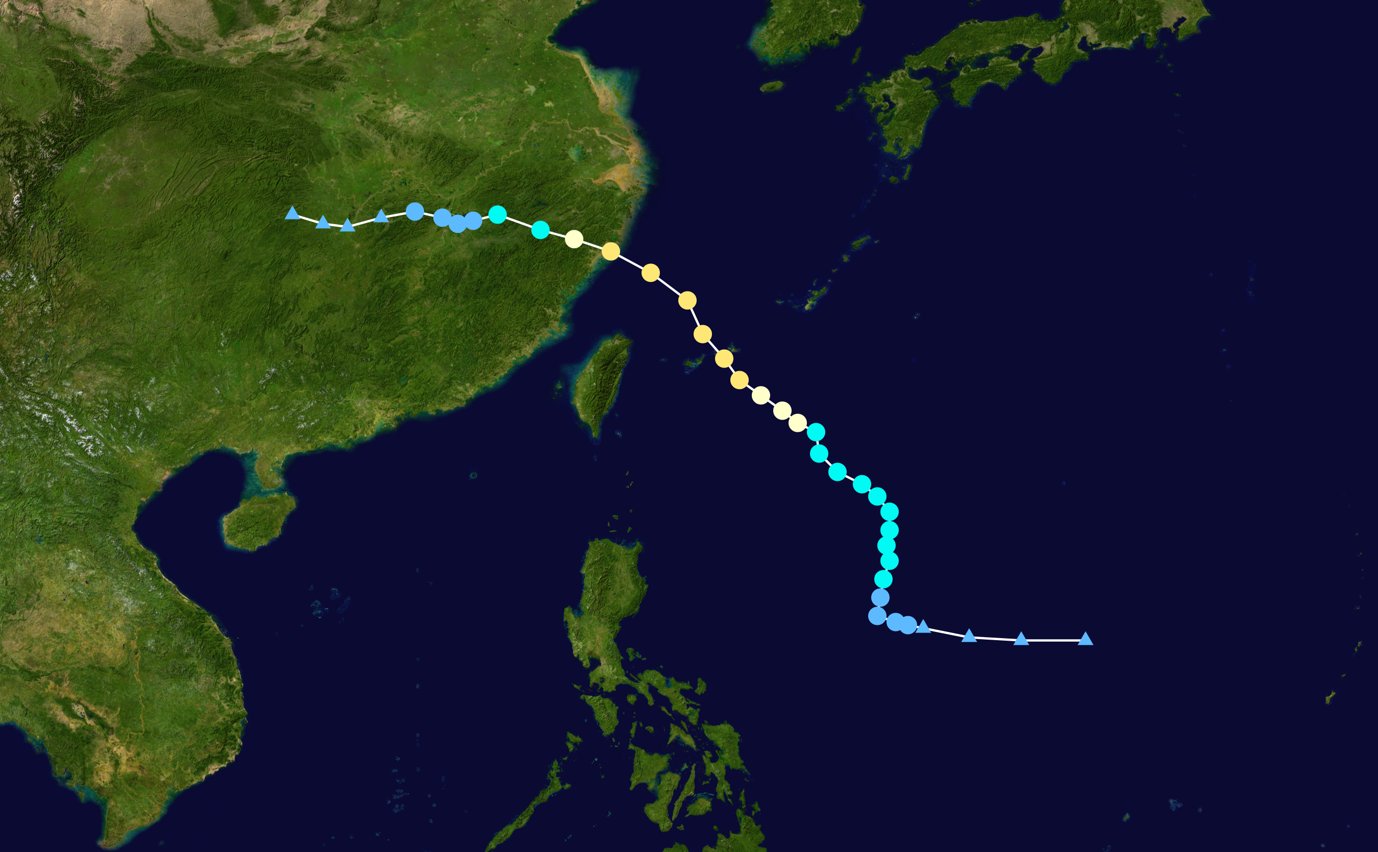 Typhoon Rananim (2004) track. Uses the color scheme from the Saffir-Simpson Hurricane Scale.